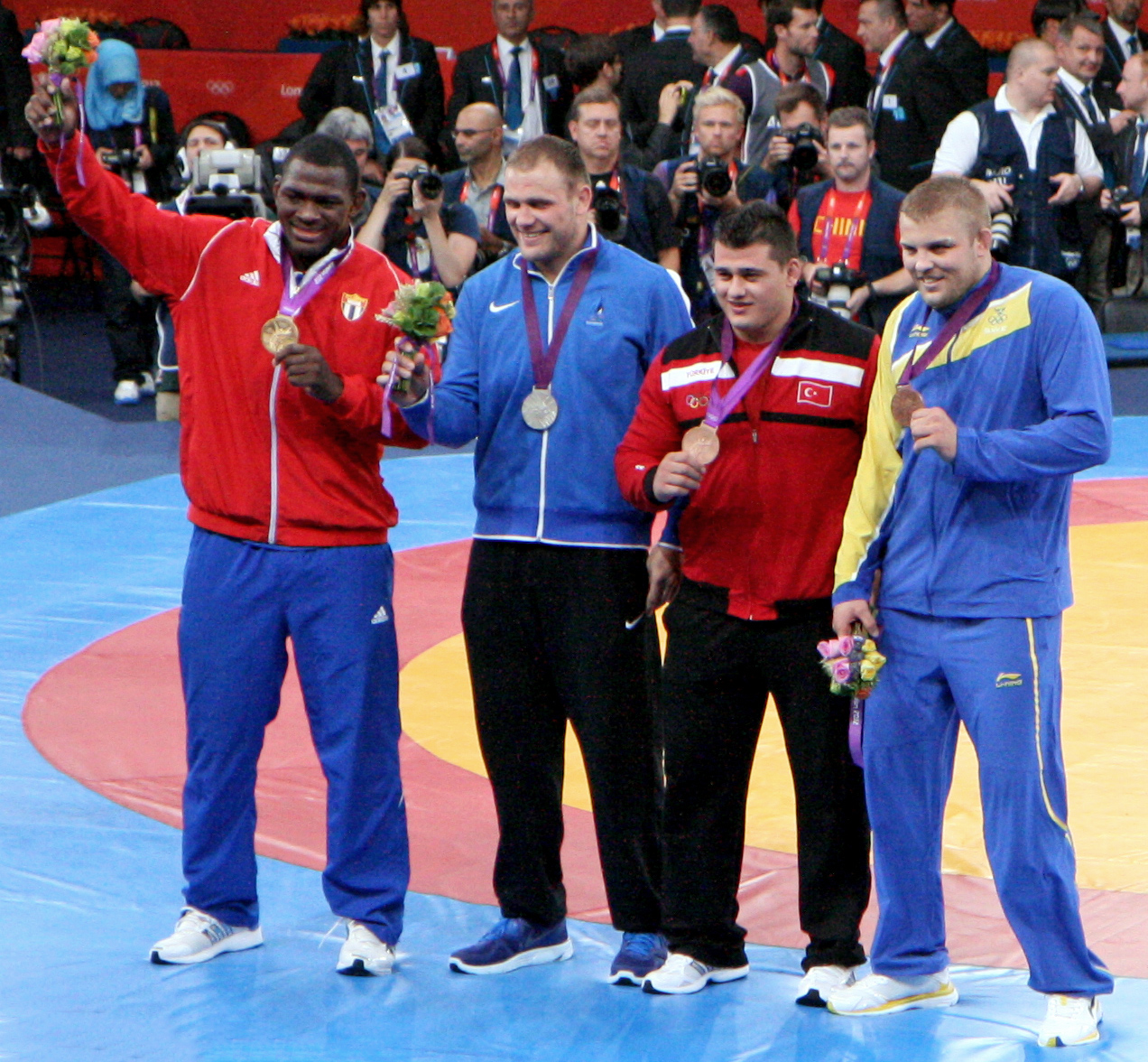 Medalists at the Men's 120 kg Greco Roman Wrestling, just after the medal ceremony. Left to right: Mijaín López of Cuba (gold), Heiki Nabi of Estonia (silver), Rıza Kayaalp of Turkey (bronze) and Johan Eurén of Sweden (bronze).